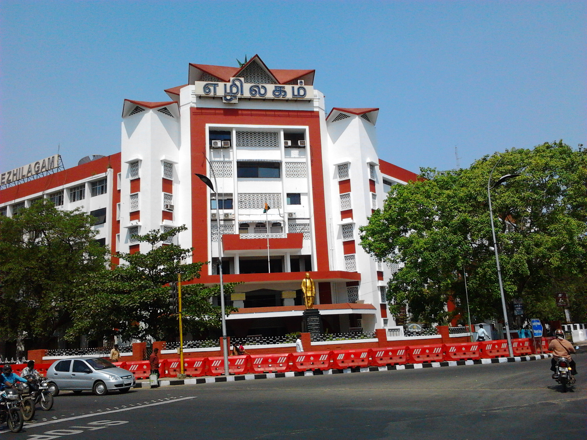 Photoed using Samsung Wave 525.